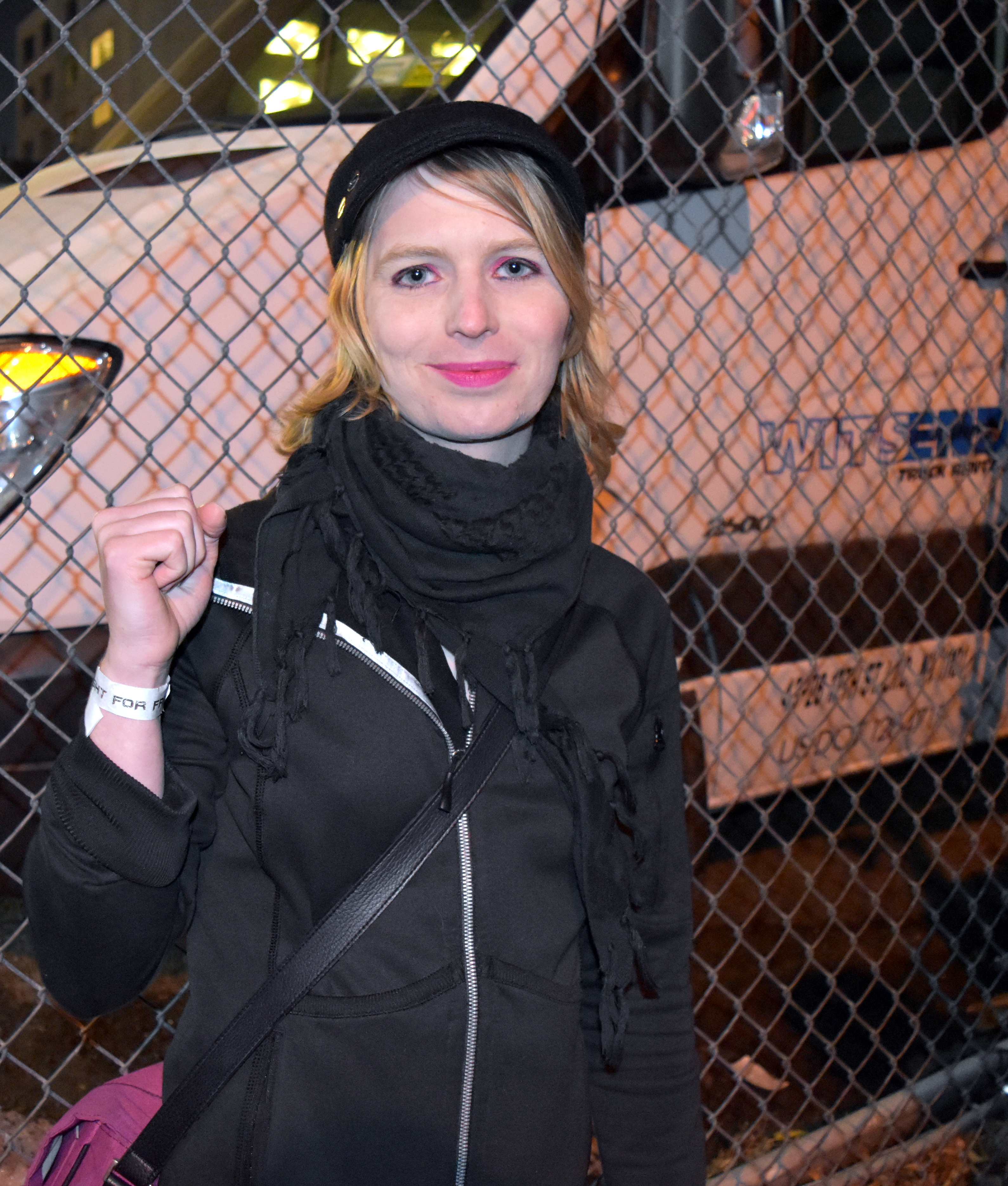 Chelsea Manning at protest in front of "A Night For Freedom"